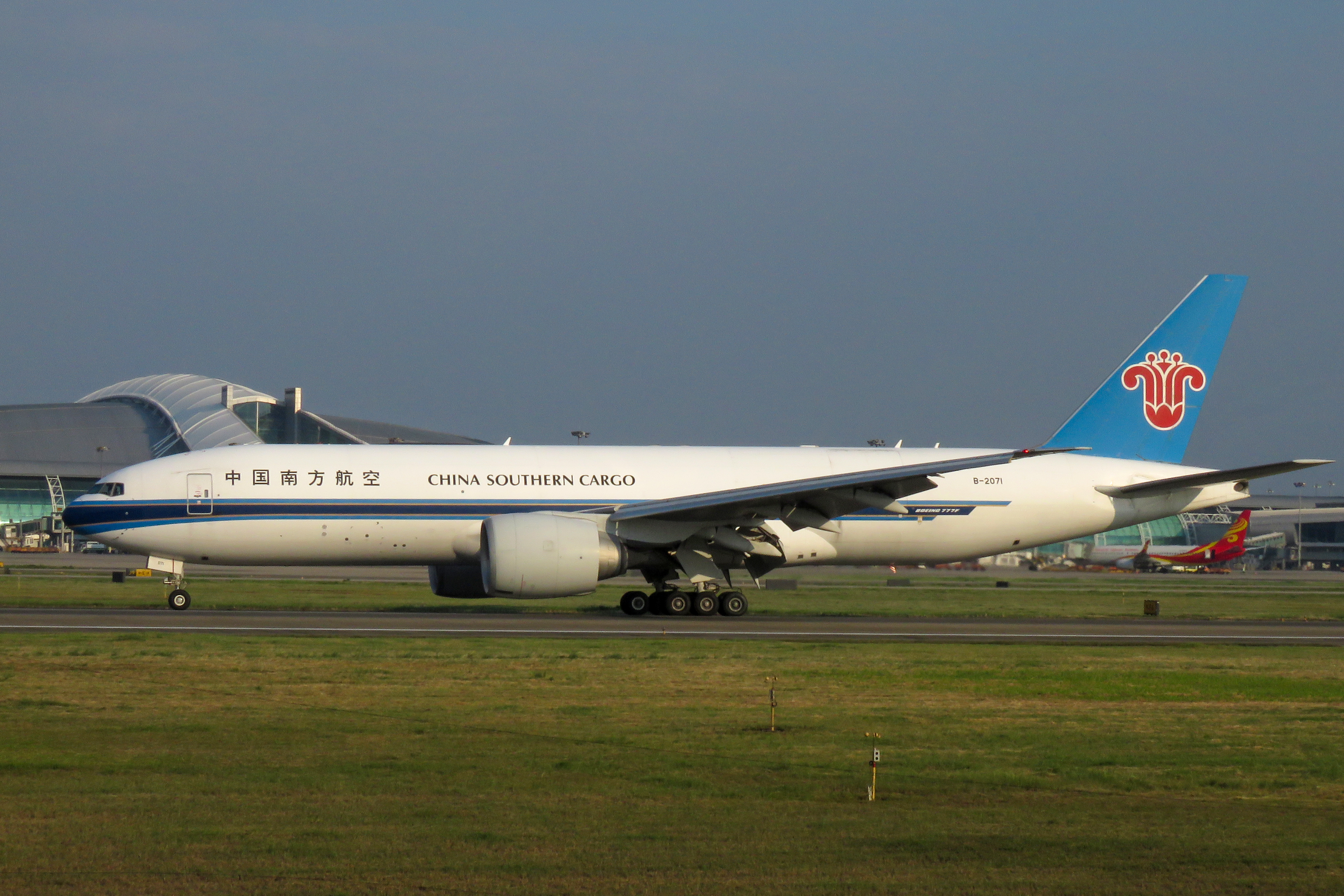 China Southern 472 from Los Angeles. First time to see their cargo aircraft.